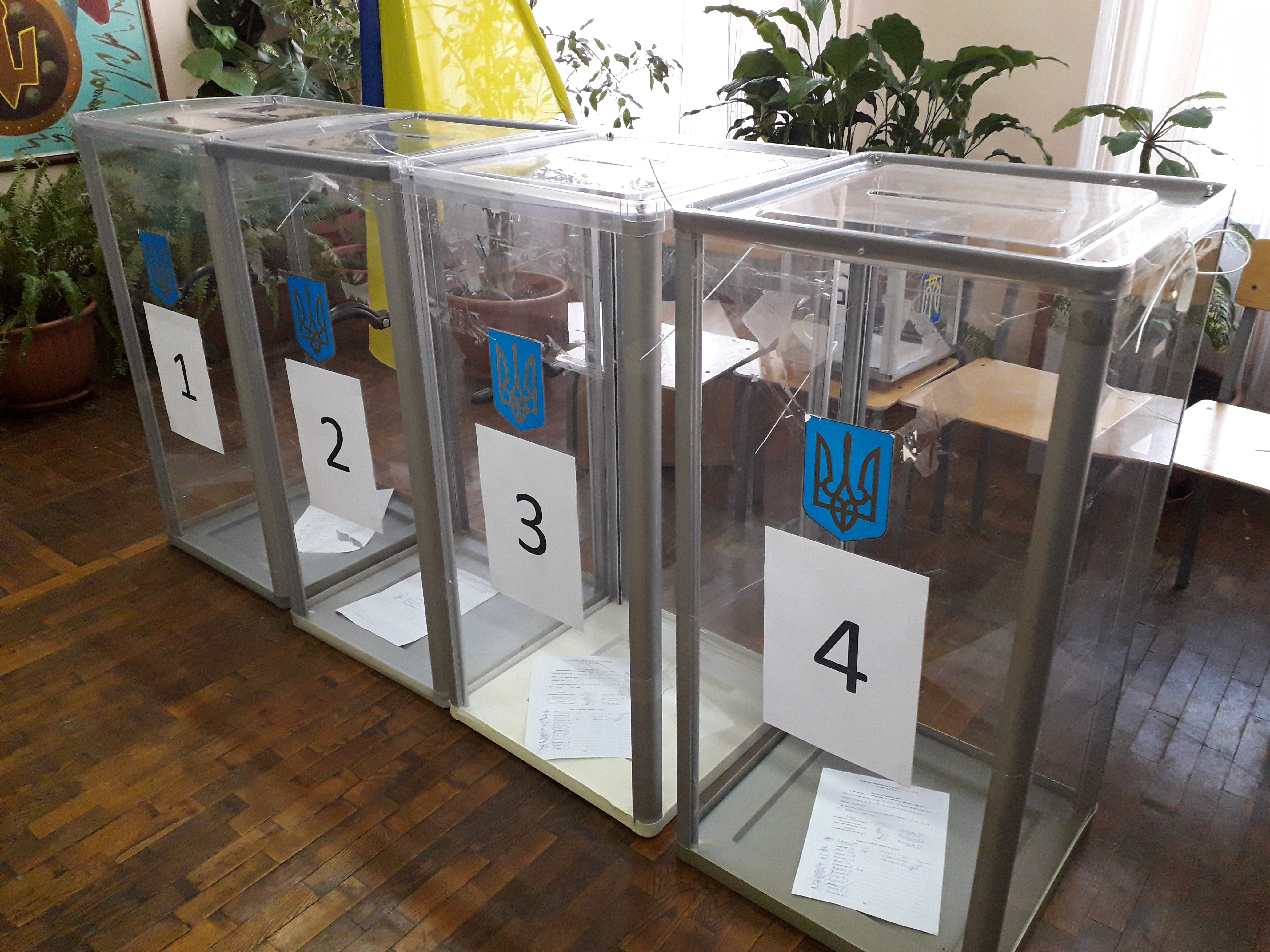 Big ballot boxes in Ukraine, with control blank already in them on the beginning of voting day of the Election of the President of Ukraine of March 31, 2019, polling station 800143, Kyiv.